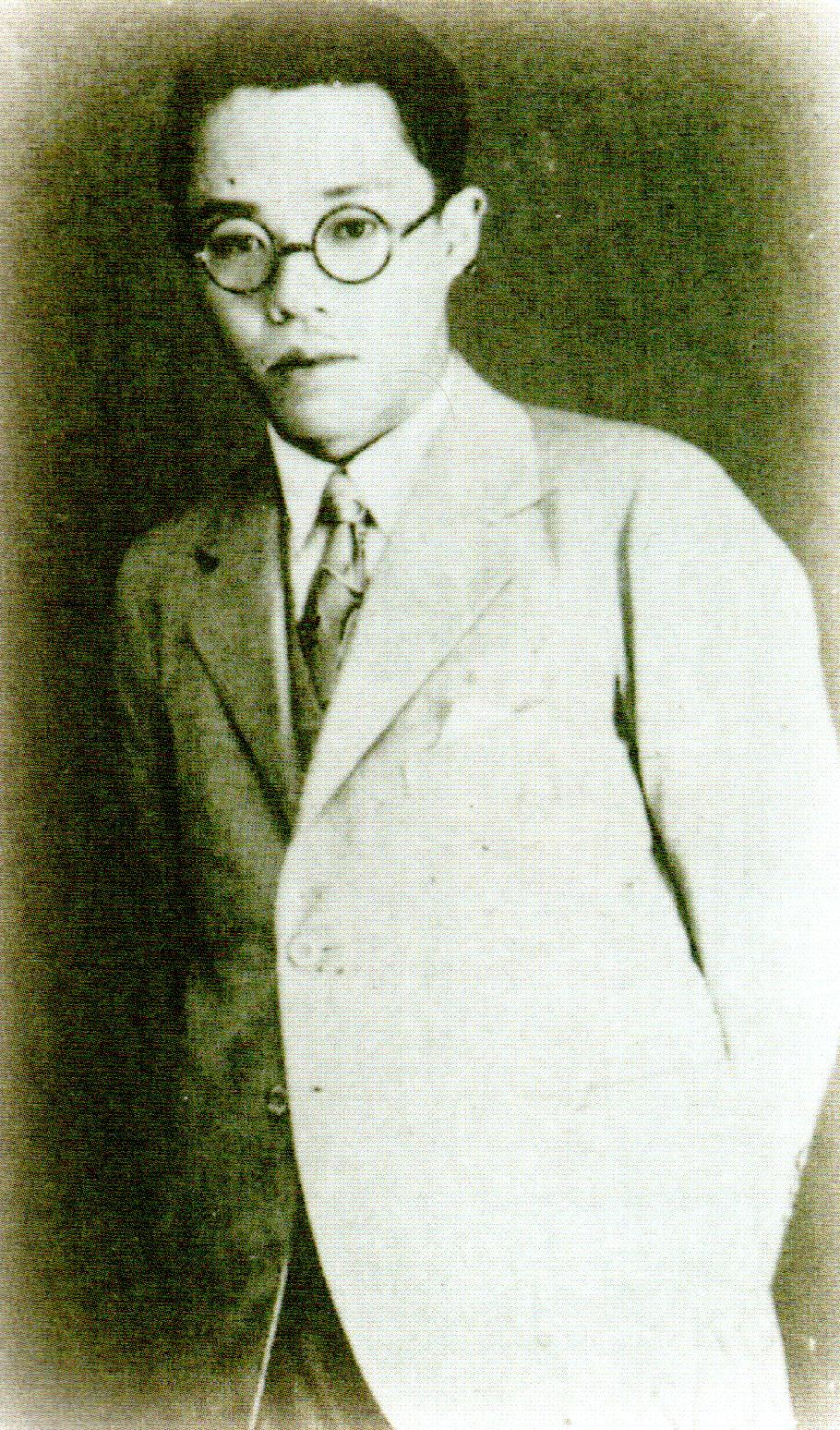 Seichō Matsumoto, the 1930s, in his twenties.